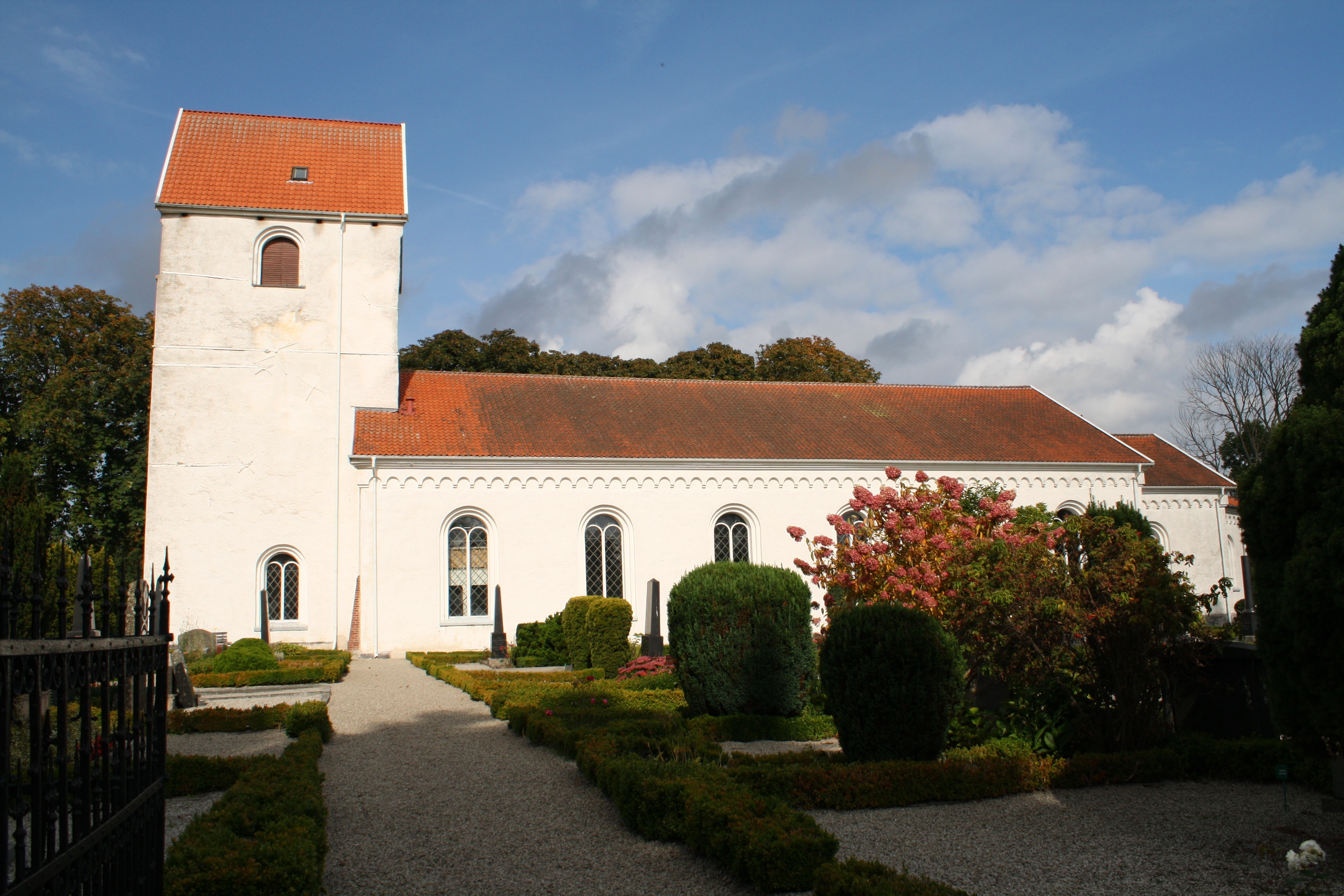 The church at Gudmuntorp seen from the churchyard